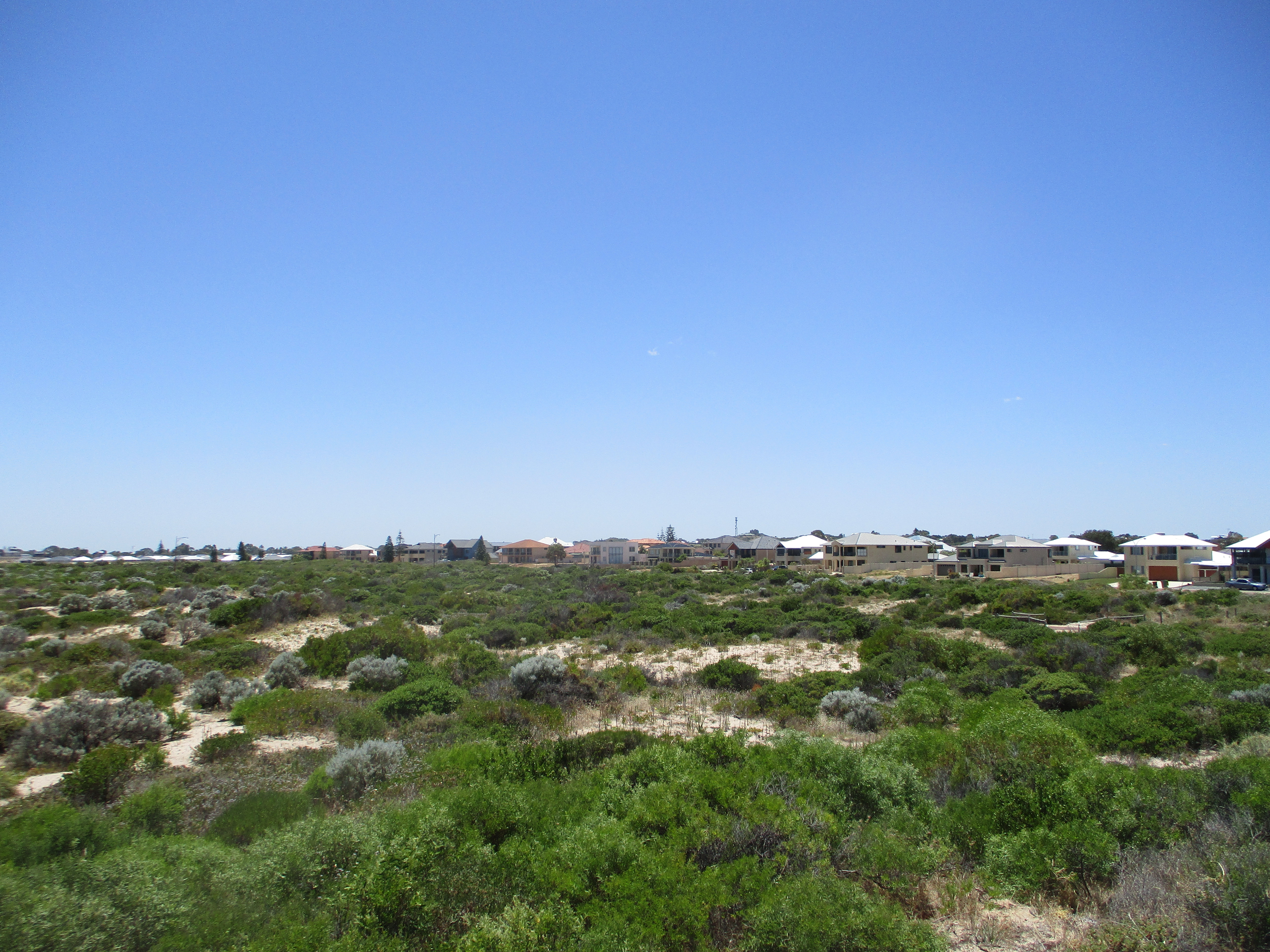 Singleton, Western Australia, view from the foreshore. Looking north-east from the lookout at the foreshore, at the end of Singleton Beach Road.